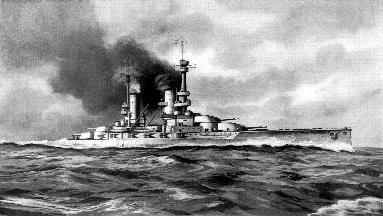 A recognition drawing of the German battleship König prepared by the Royal Navy's Intelligence department that was distributed to the fleet in 1918.